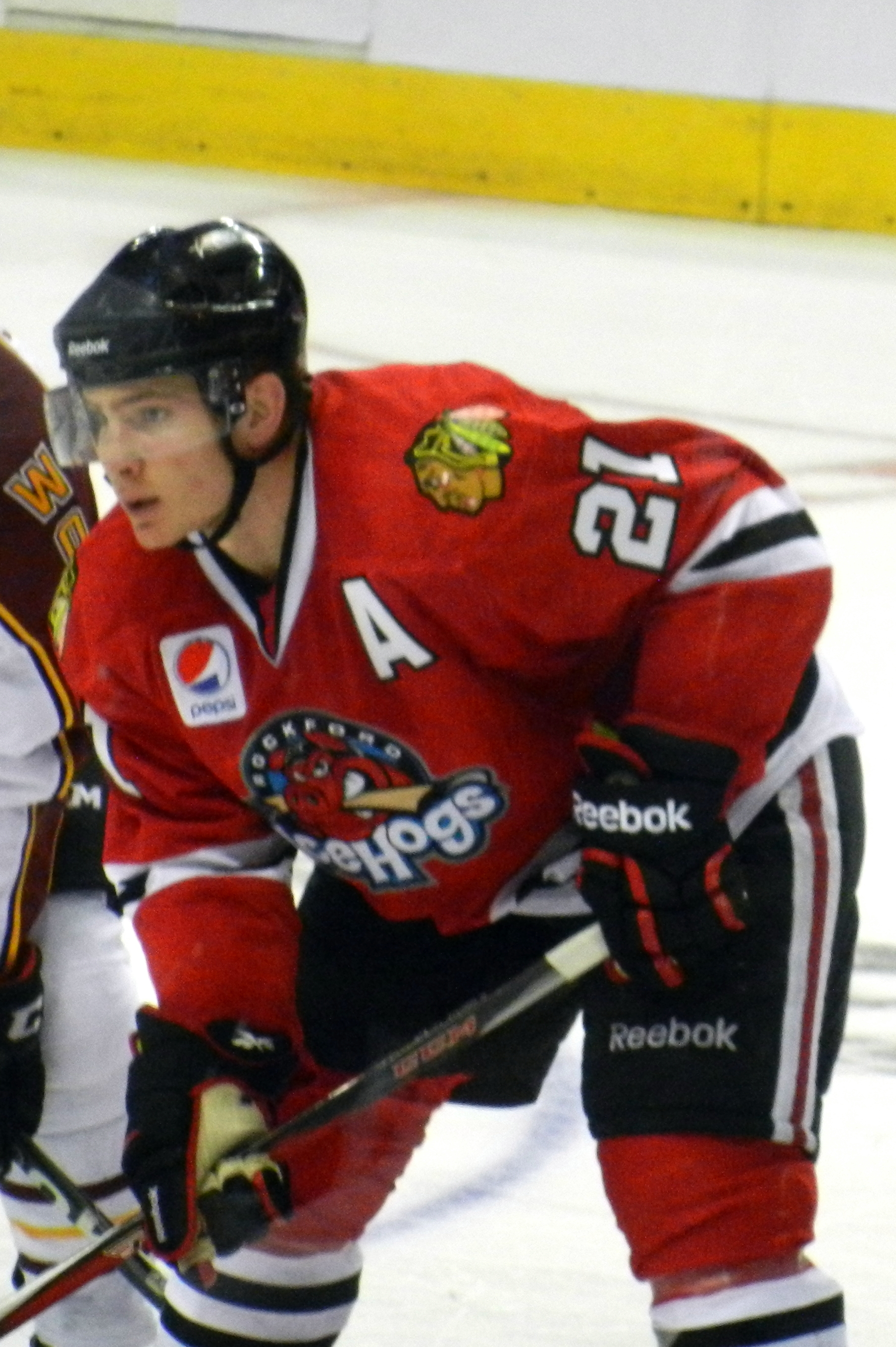 Ben Smith playing for the Rockford IceHogs during the 2012-13 AHL season